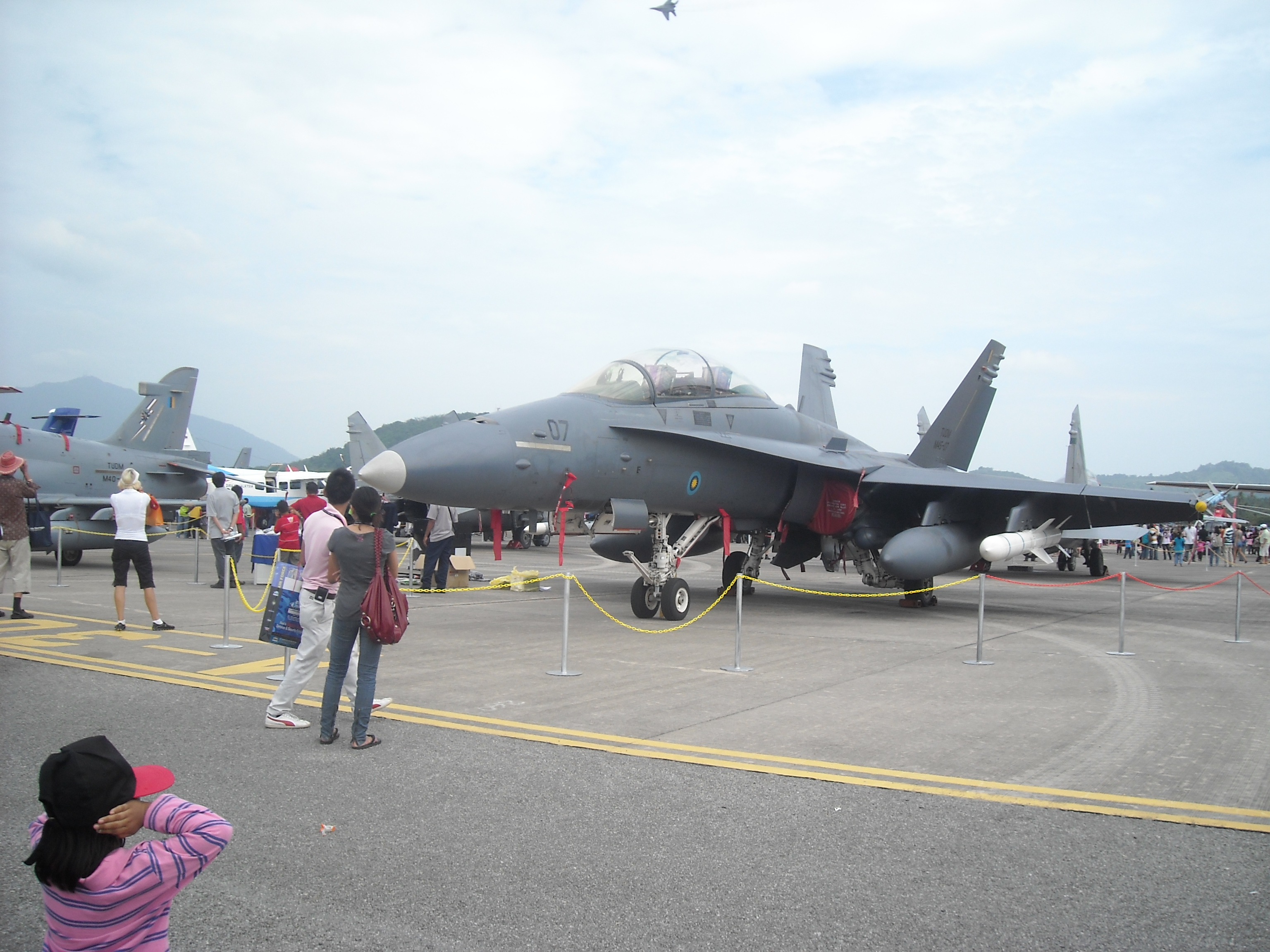 An US-made F/A-18D Hornet serial number M45 of the Royal Malaysian Air Force at Langkawi International Maritime and Aerospace Exhibition 2009 or LIMA 2009 at Langkawi Airport. Taken by me at Langkawi Airport, Langkawi, Kedah, Malaysia.